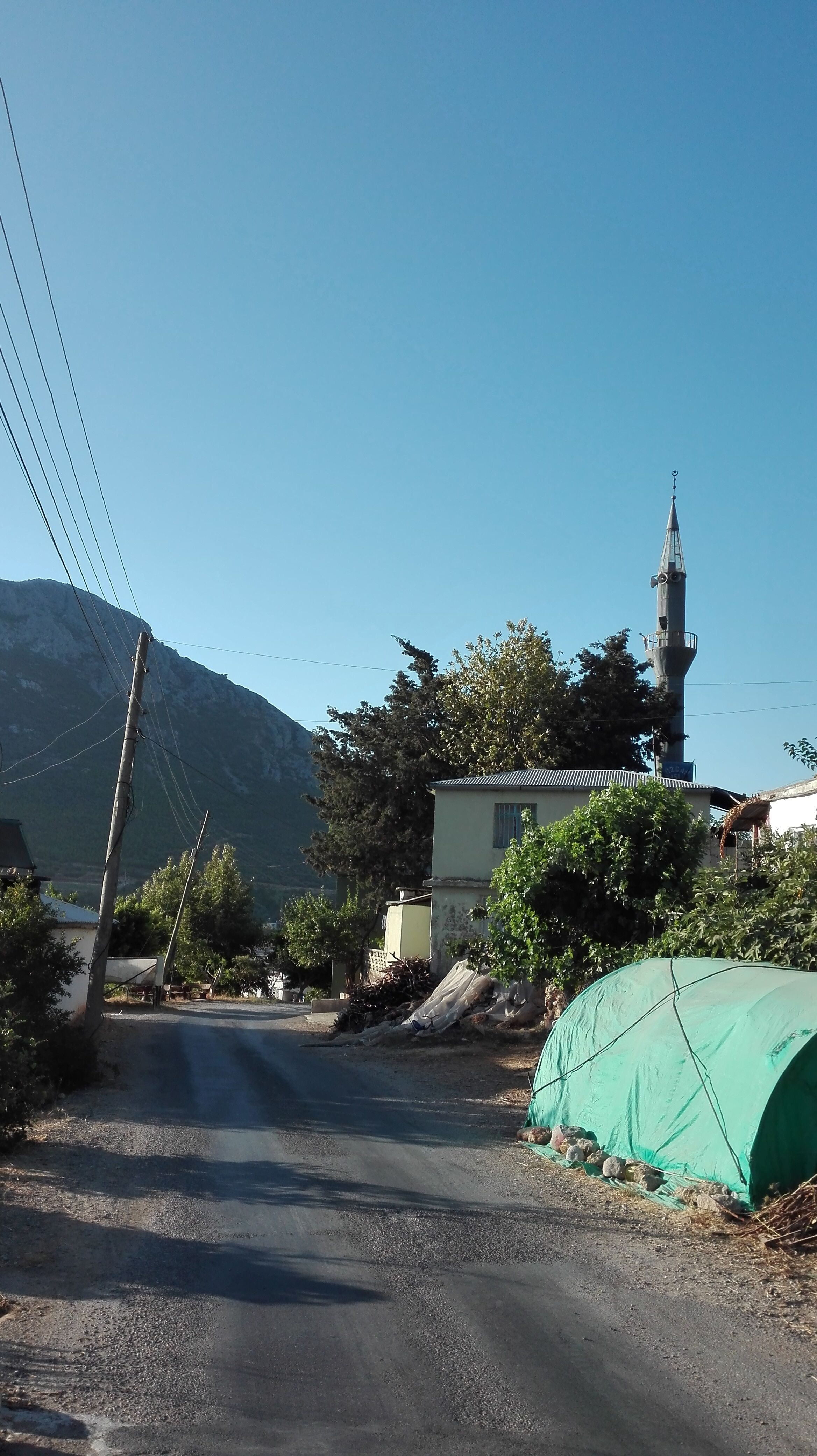 Gözce Camii, Gözce, Bozyazı, Mersin, Turkey